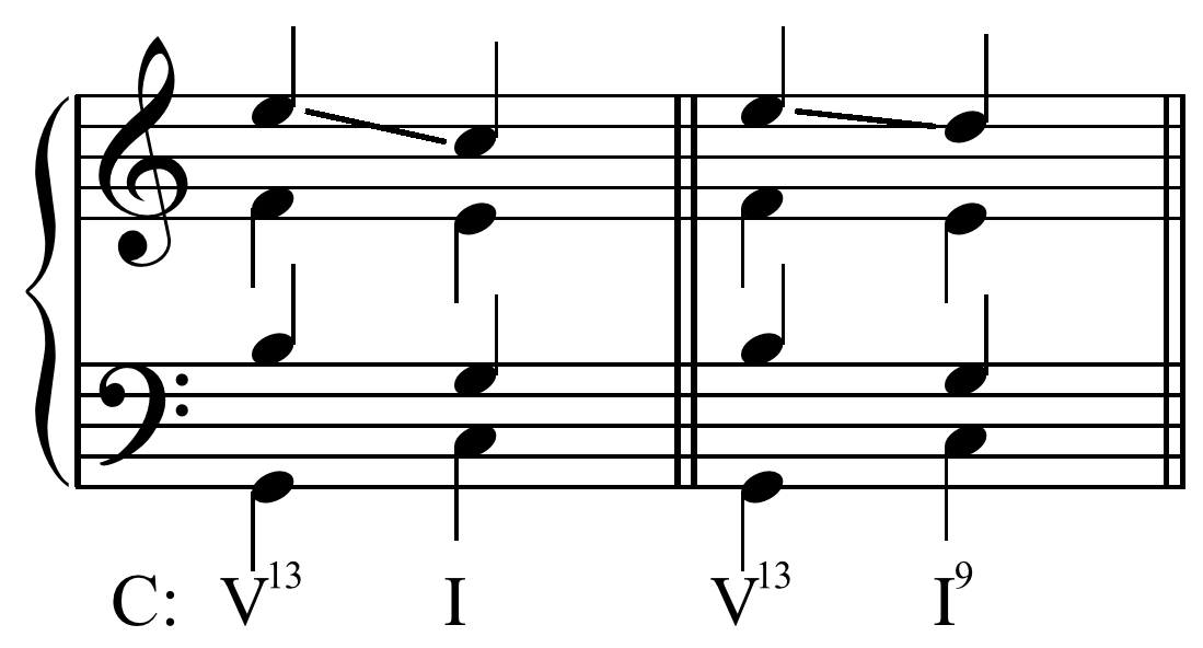 Voice leading for dominant thirteenth chords in the common practice period.